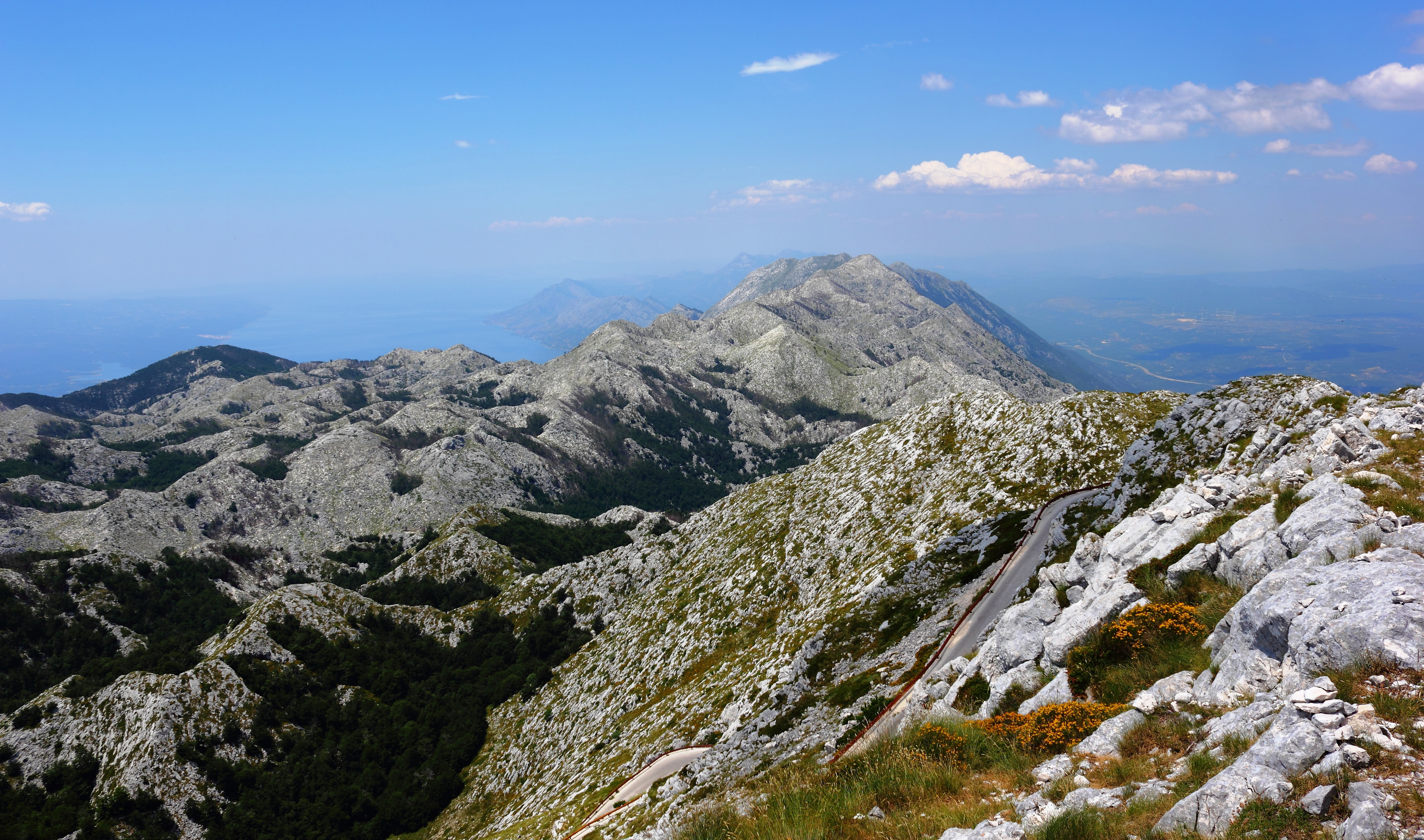 Biokovo Nature Park